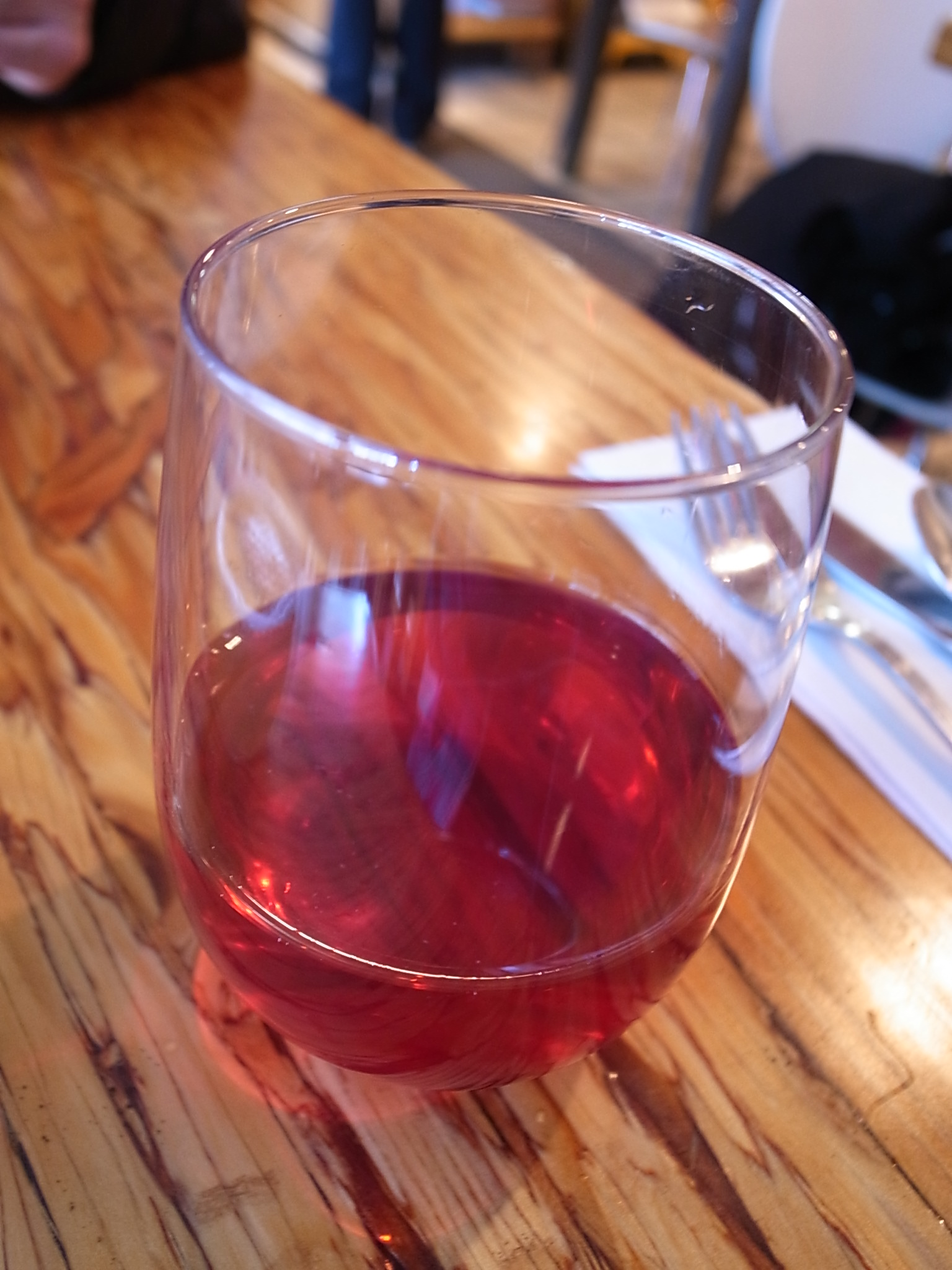 @Ciao-Thyme Bistro